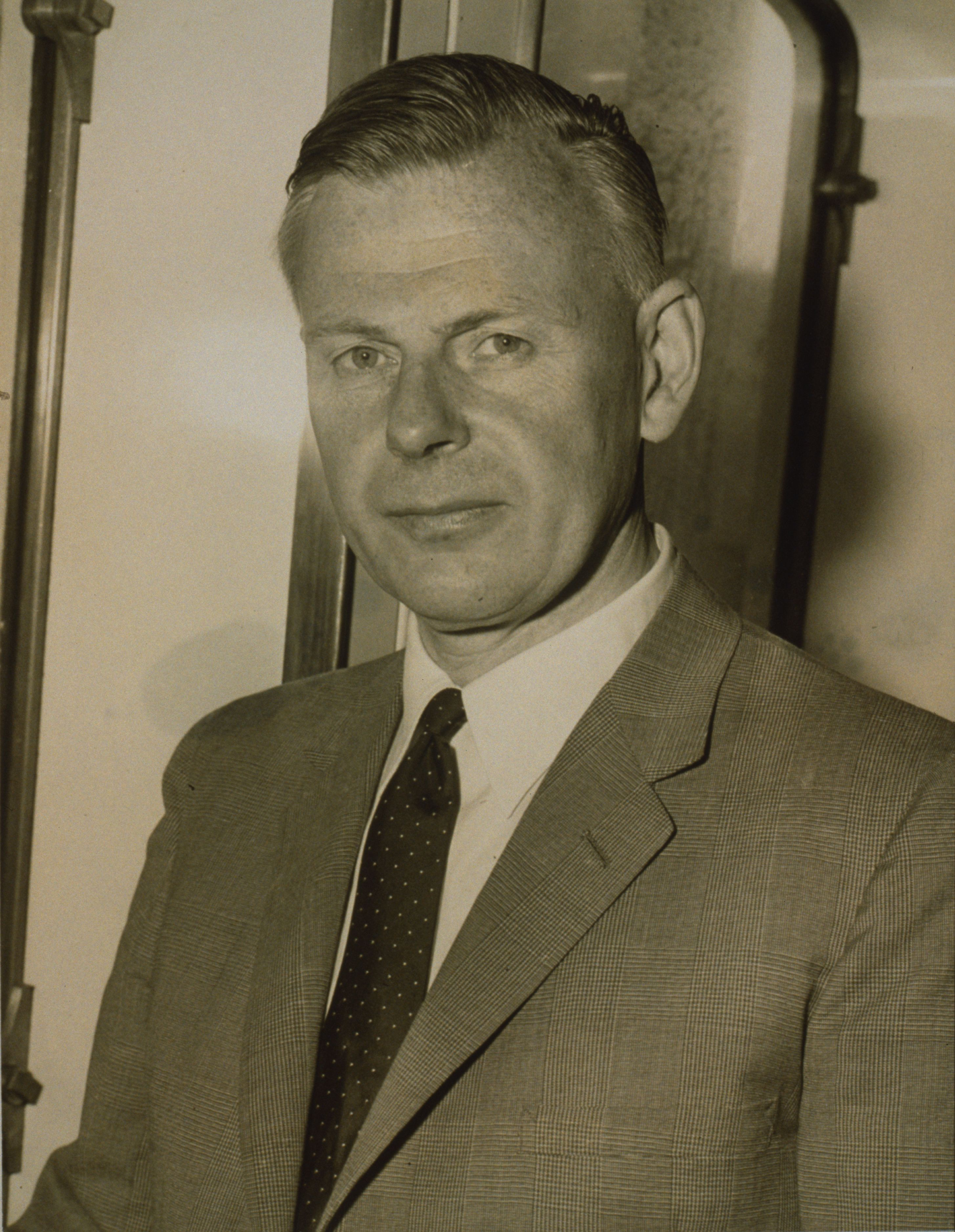 Bengt Strömgren, astronomer, Yerkes Observatory, Wisconsin / World Telegram & Sun photo by Roger Higgins.